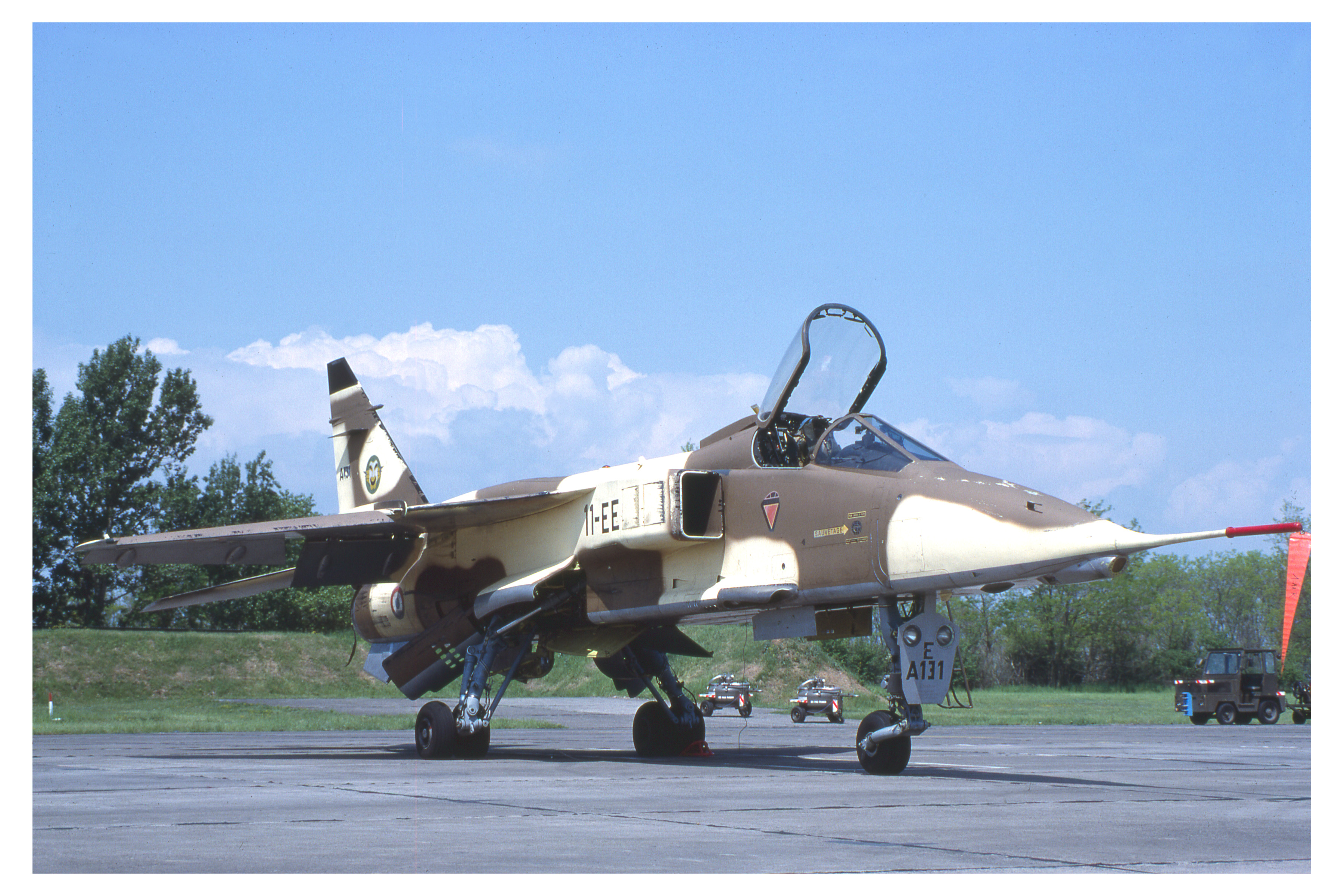 1985 North Africa colors.